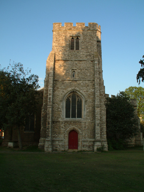 West tower of All Saints parish church, Edmonton, London (formerly Middlesex), seen from the west